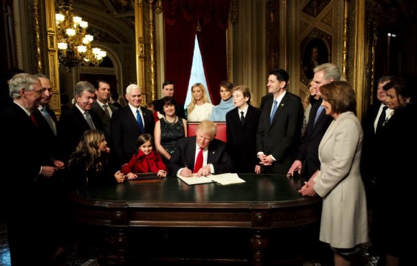 Donald Trump on his first day as President